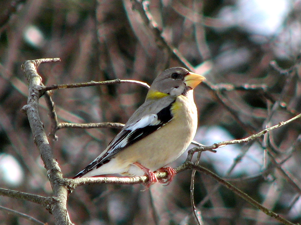 Evening Grosbeak (Coccothraustes vespertinus), female in winter, Gatineau Park, Quebec, Canada